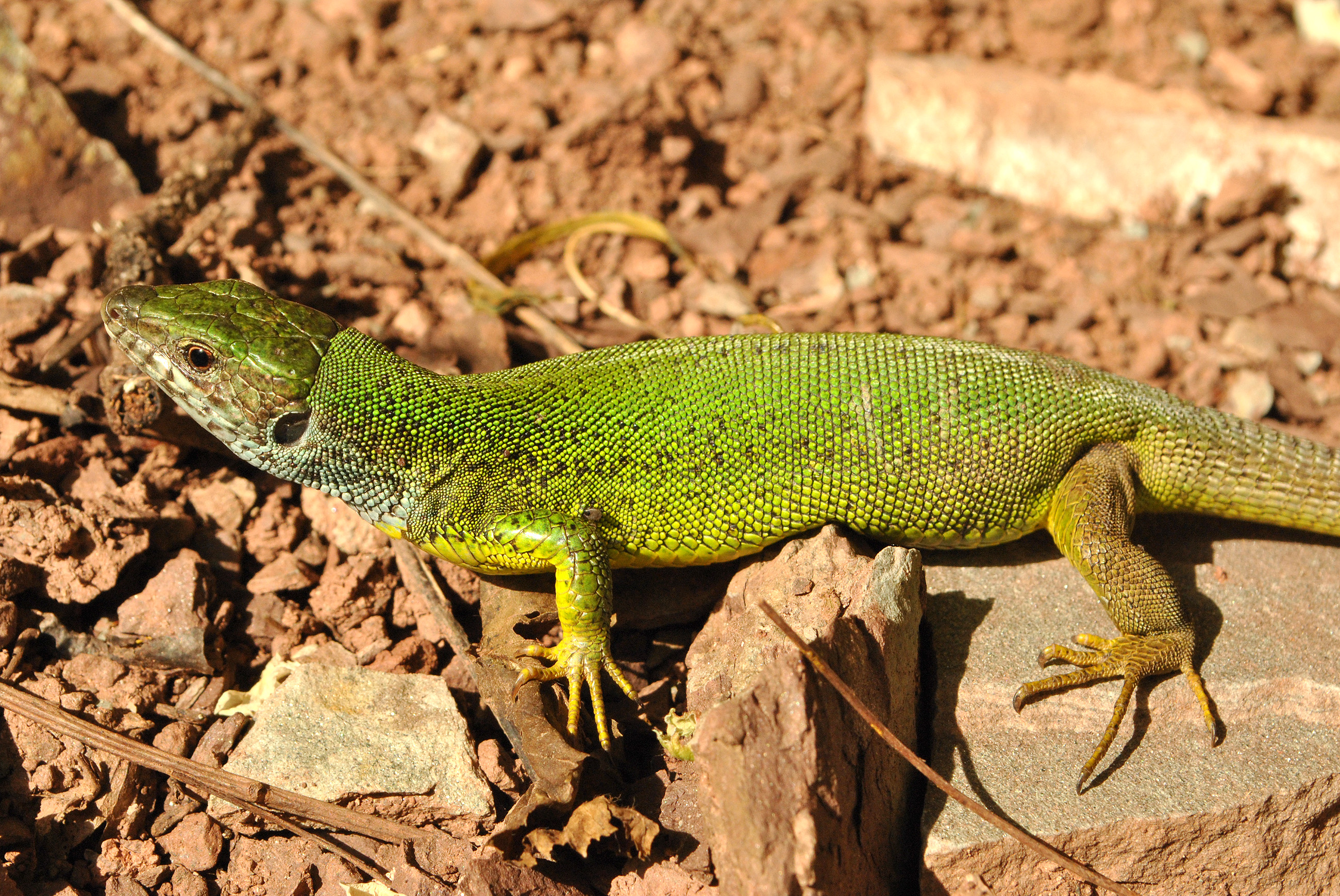 Lacerta agilis in the village of Zhnyborody